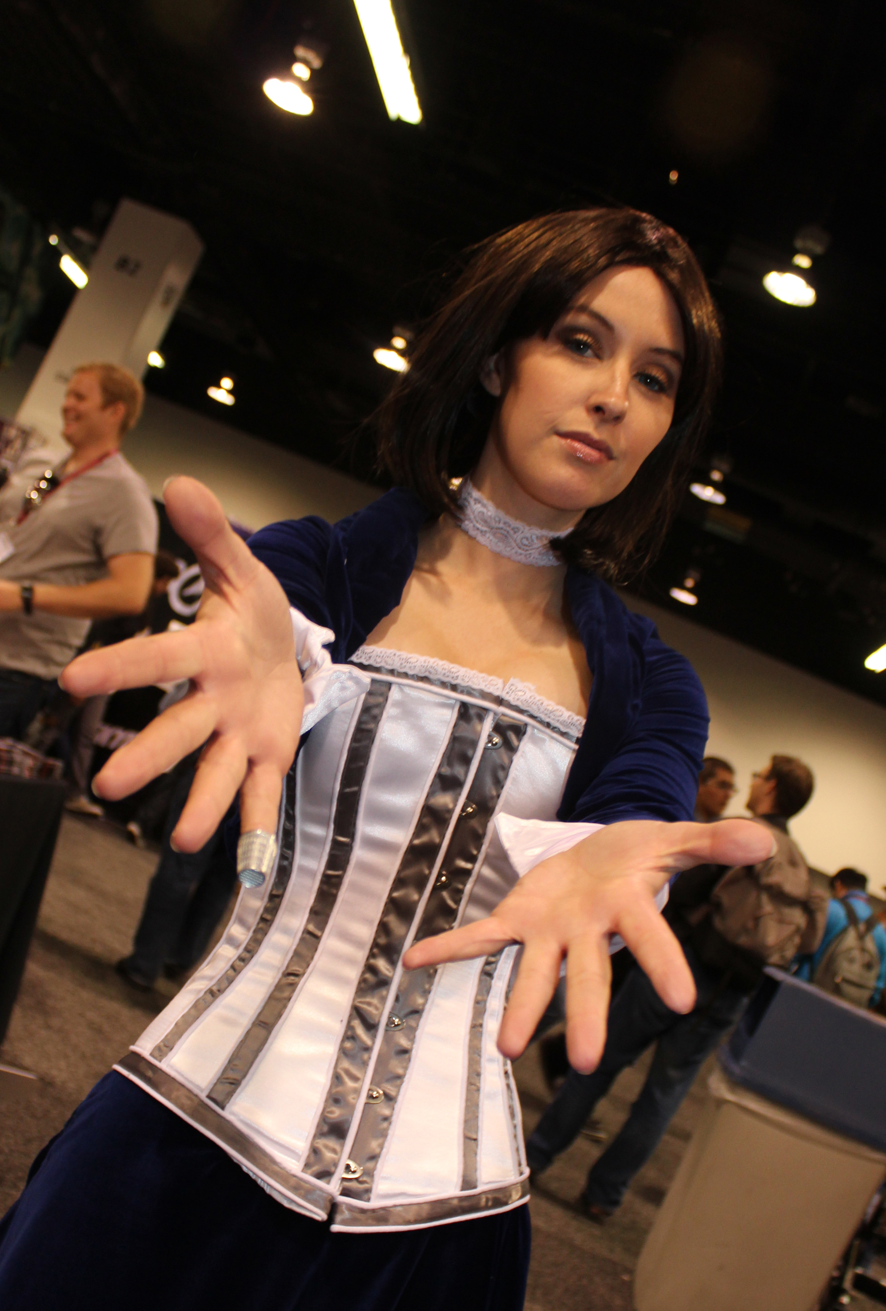 American Internet personality Meg Turney cosplaying as Elizabeth from the video game BioShock, at WonderCon in 2013.